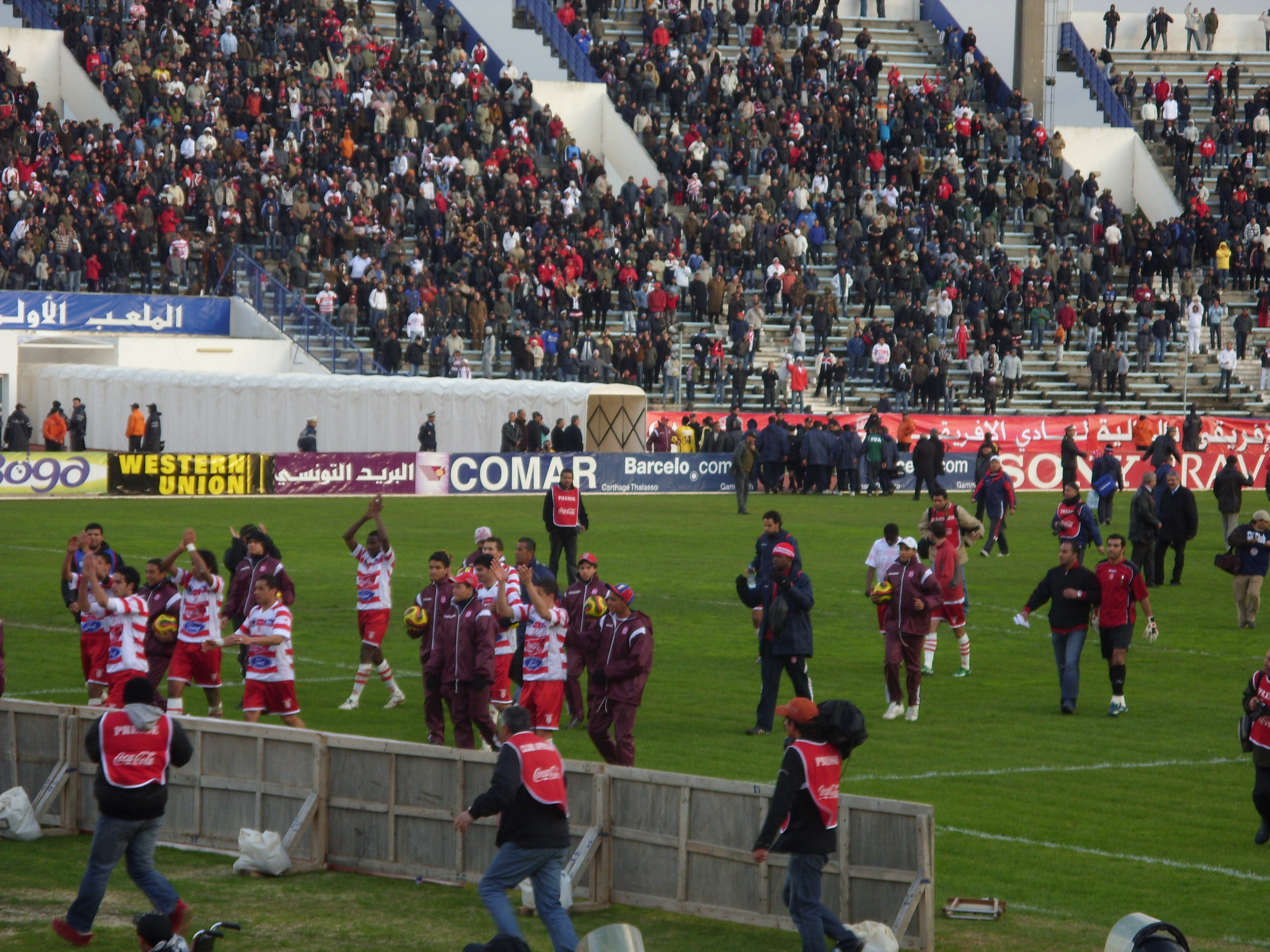 Club Africain players